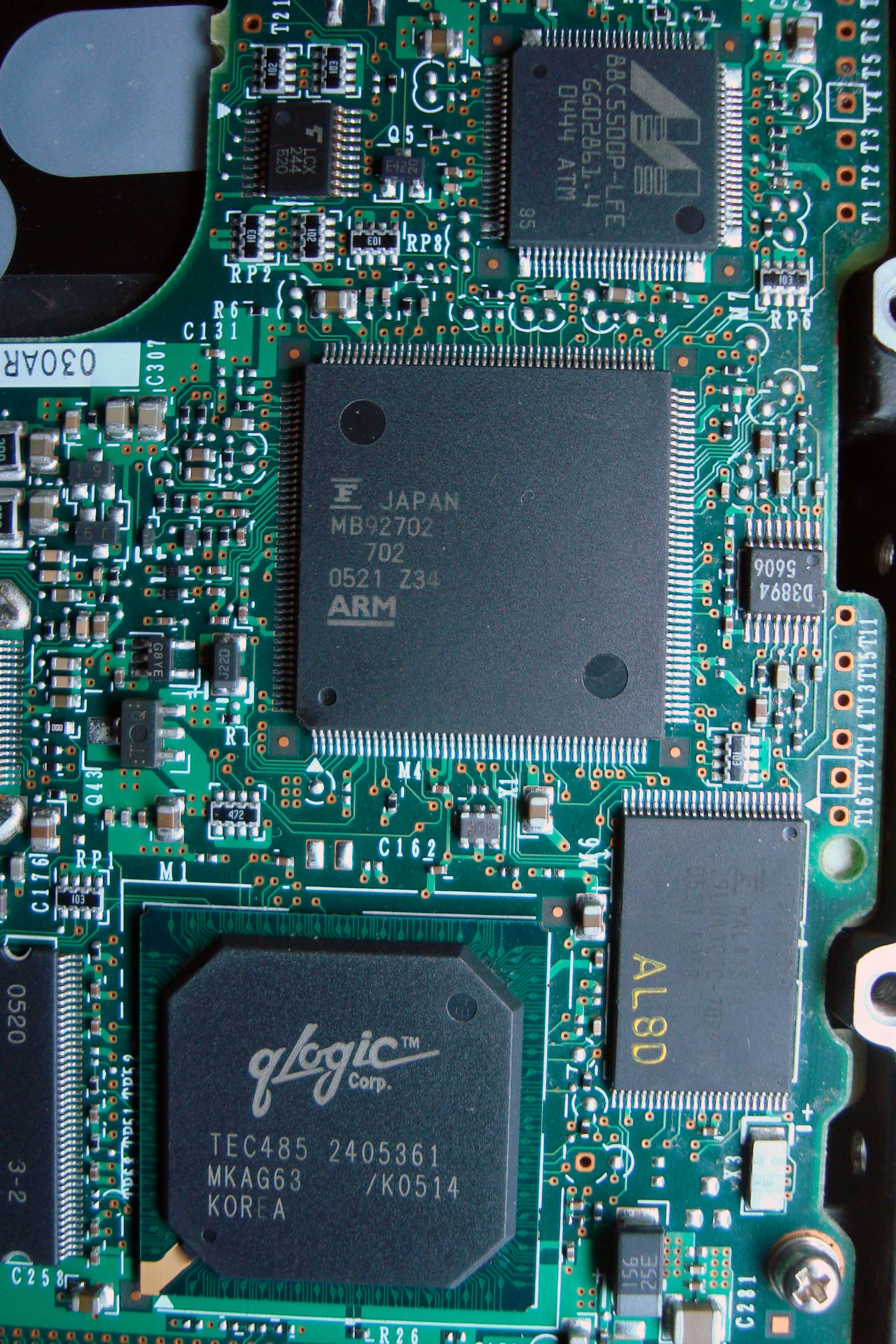 HDD Ultra320 SCSI SCA2 LVD Fujitsu MAP3735NC